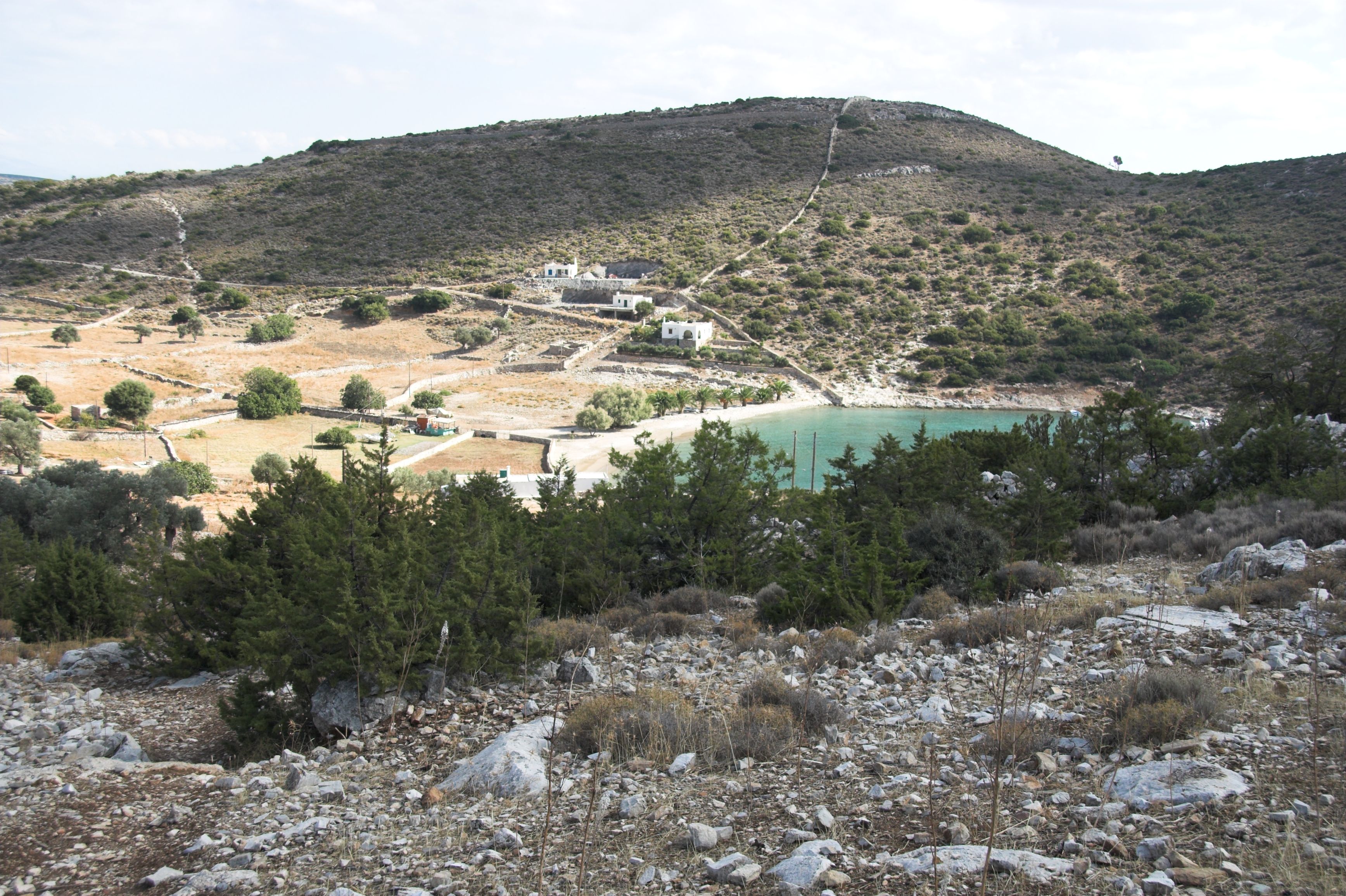 View on bay Panormos from the archaeological complex.